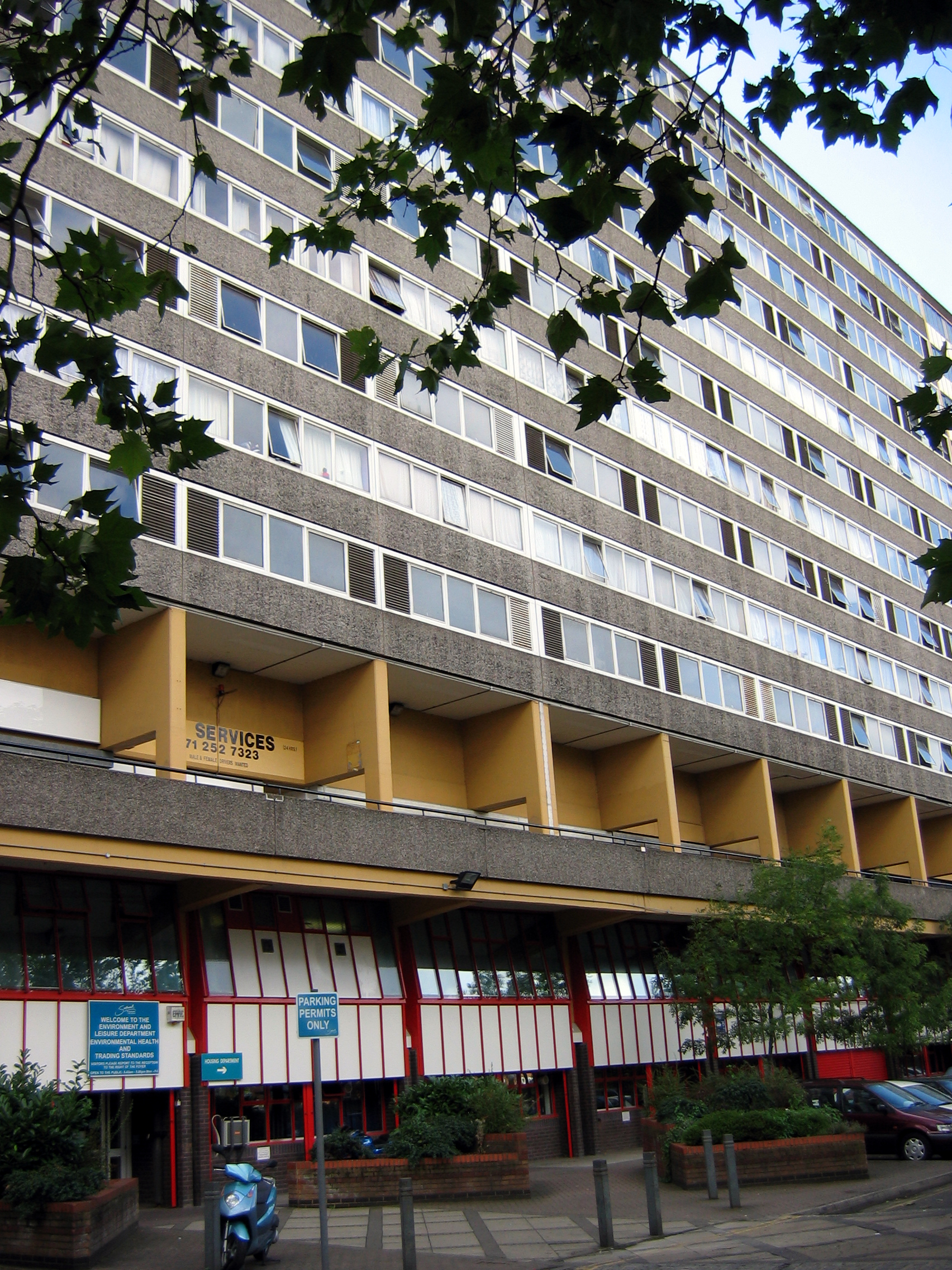 Taplow, Thurlow Street, Aylesbury Estate, Southwark, London. Taken by C Ford Summer 04.